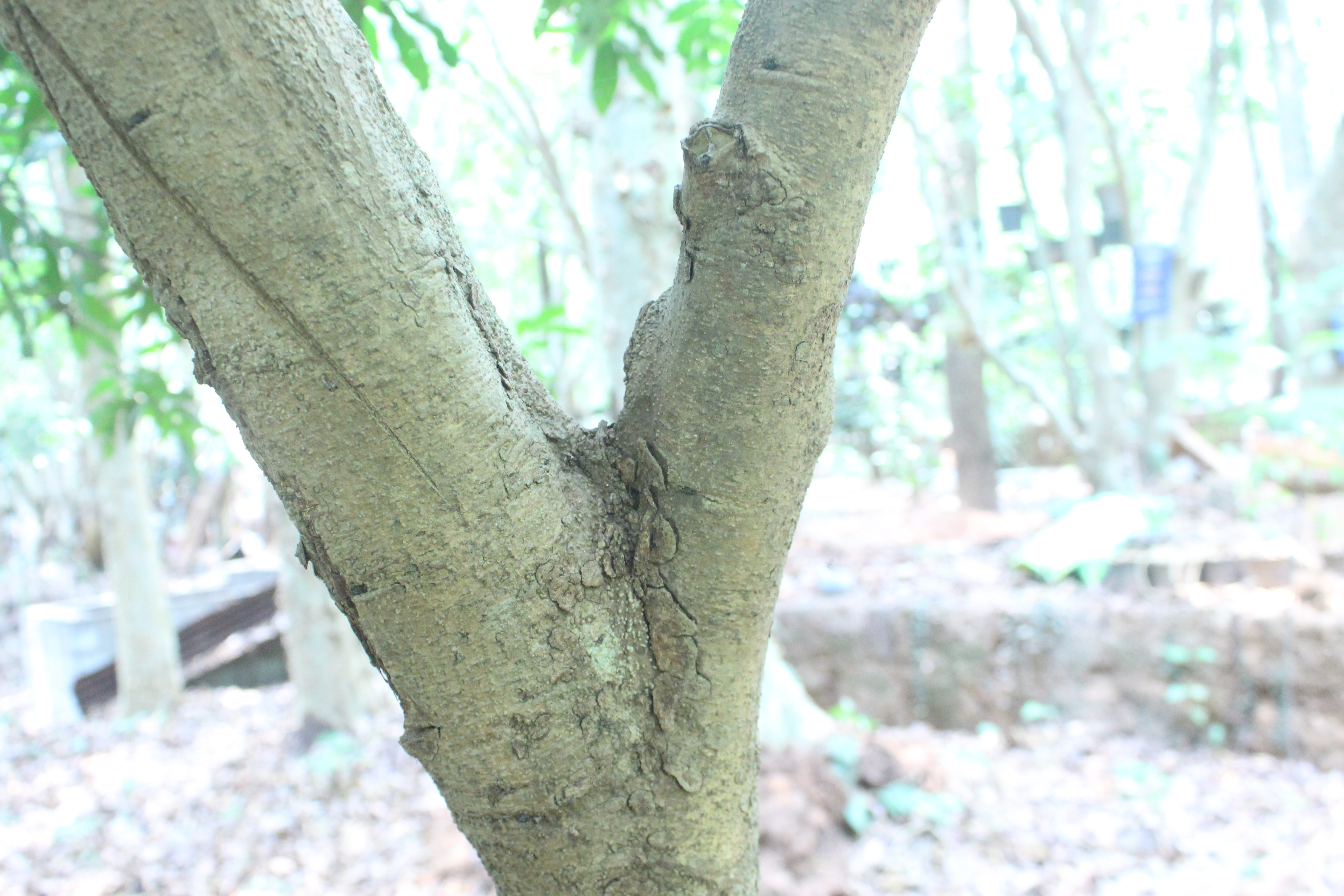 holarrhena-antidysenterica ಕನ್ನಡ: ಕೋಡಸಿಗ